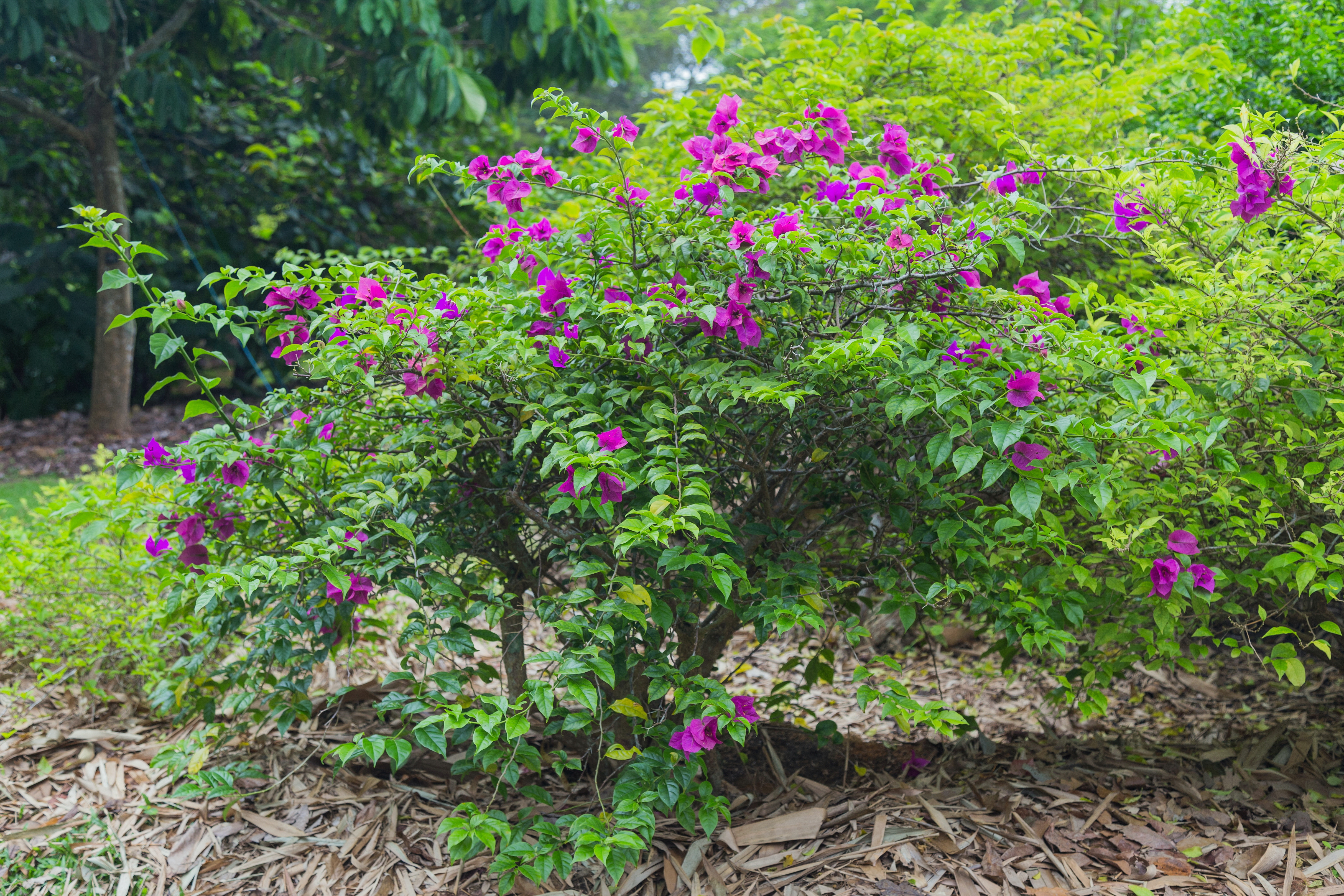 Bougainvillea spectabilis. Botanic Gardens. Central Region, Singapore.